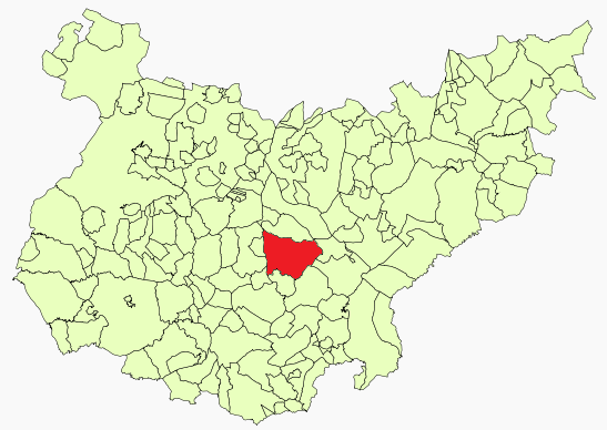 Hornachos